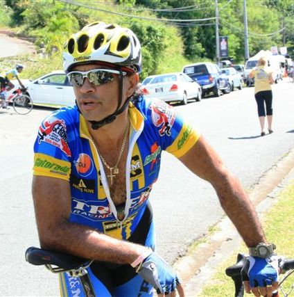 Gene Samuel, retired road bicycle racer and track cyclist from Trinidad and Tobago. Appeared in four consecutive Summer Olympics starting in 1984.